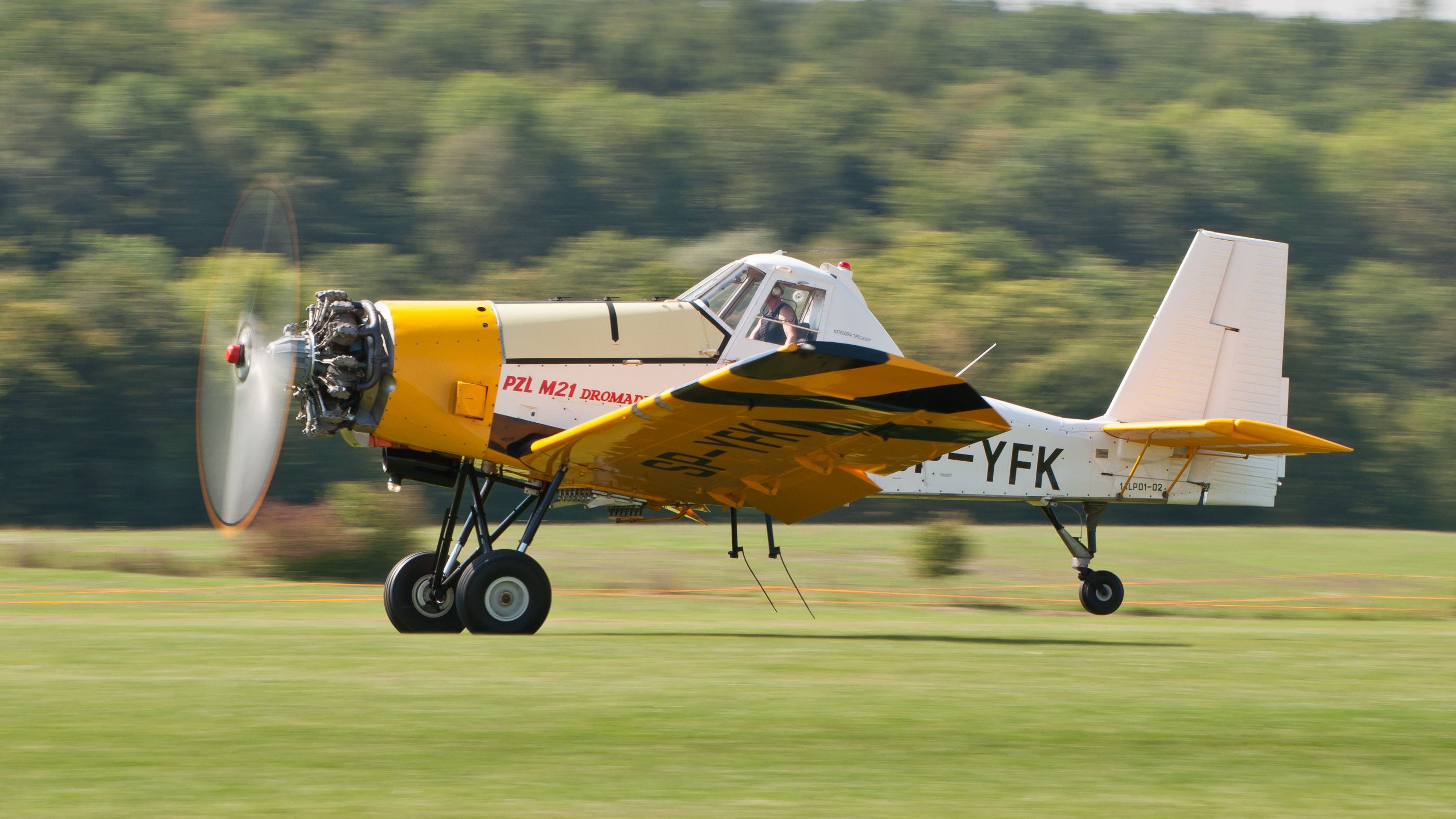 PZL-Mielec M-21 Dromader Mini (reg. SP-YFK, cn 1ALP01-02) at Oldtimer Fliegertreffen Hahnweide 2013.